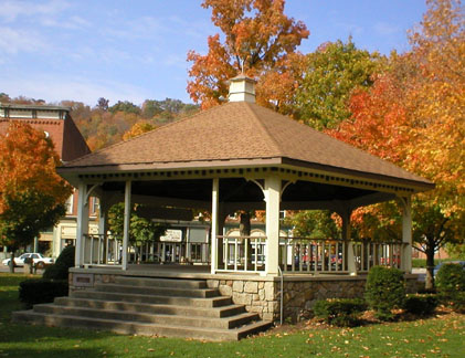 Photographed by Liz Heimel-Heck, family of origin in Coudersport, PA. My grandfather and many other relatives have played music in this gazebo for years.